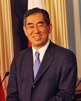 Takeaki Matsumoto, Minister for Foreign Affairs, talked with Hillary Rodham Clinton, Secretary of State, at the Department of State in Washington, D.C. on April 29, 2011.